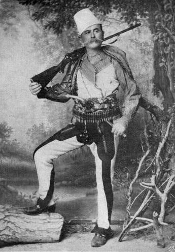 Original description: "Rok, tribesman of the Skreli" (photo taken at the Marubi studio)